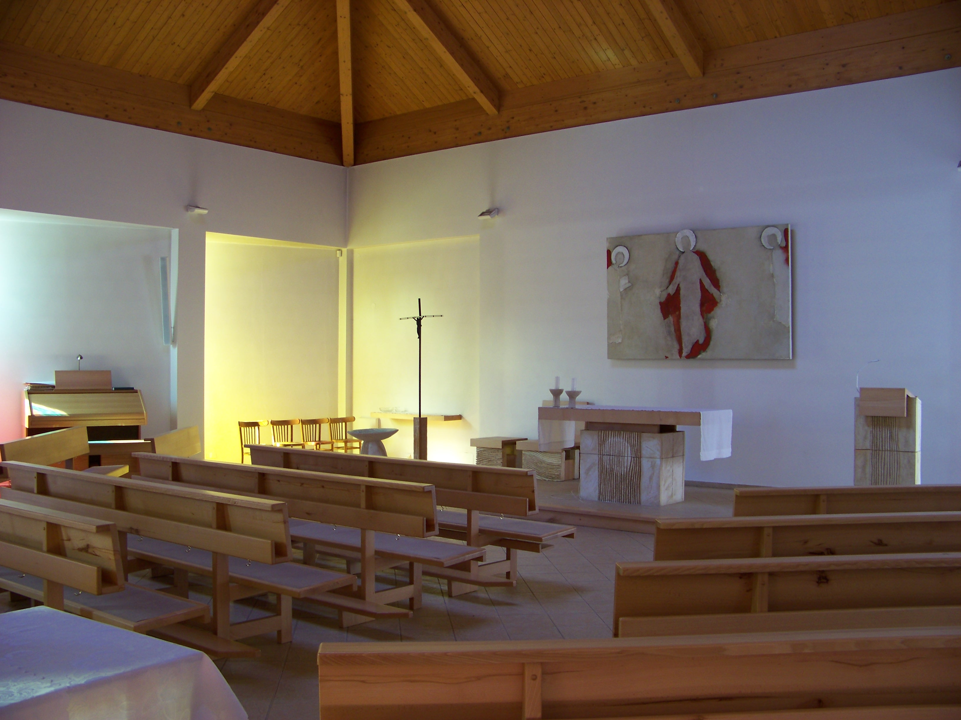 Liberec XXX-Vratislavice nad Nisou, Liberec Region, the Czech Republic. Resurrection Chapel.